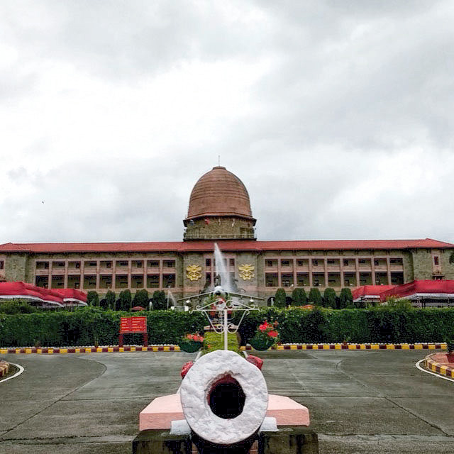 This photograph was clicked at the time of 132nd Passing out Parade